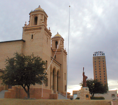 Big Spring's Municipal Auditorium and Statue of Liberty, with the old Settles Hotel in the background. By me.